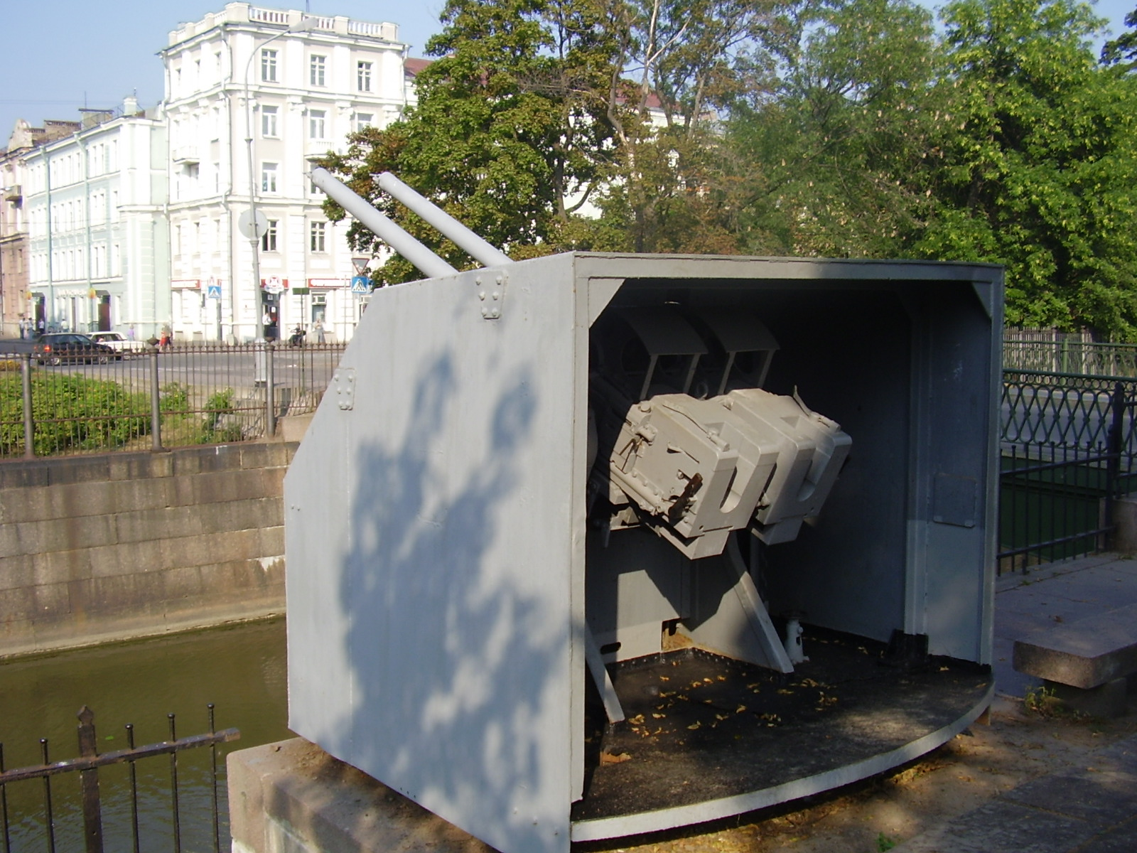 The Guns of Ivan Tambasov in Kronstadt. These are twin 76.2 mm anti-aircraft guns in "81K" twin mounting which were mounted on the battleship "October Revolution" (previously named "Gangut") in 1940. They are in Yakornaya Square in Kronstadt